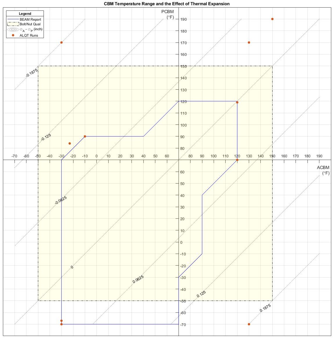 Generated from scratch in Matlab 2019b, integrating data from SSP 41172U and analysis of the Bigelow Expandable Activity Module (BEAM) reported in TFAWS2017-PT-04. The effect of thermal expansion is a trivial calculation based on the coefficient of thermal expansion for aluminum given the bolt circle diameter on the rings, specified in SSP 41004J Figure 3.1.4.1-8.